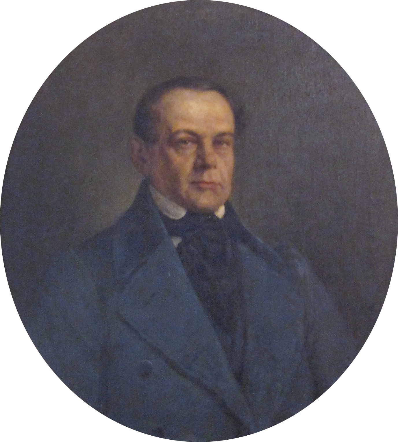 Ignaz Bösendorfer (1796-1859). Factory of piano manufacturer Bösendorfer in Vienna's IV district Wieden.